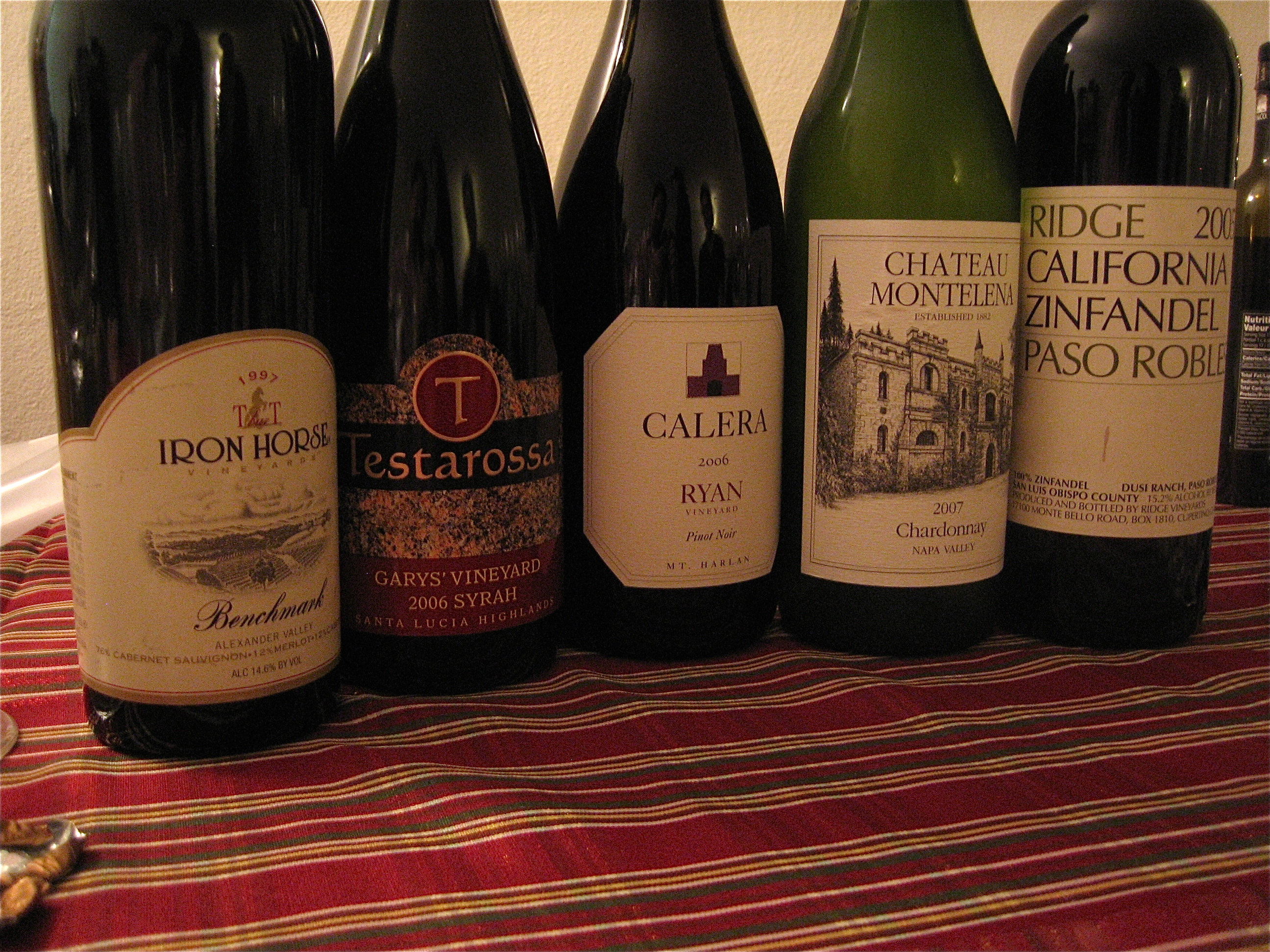 California Wine assortment including two Judgement of Paris wineries. From left to right: Iron Horse 1997 Cabernet Sauvignon Testarossa 2006 Garys' Vineyard Syrah Calera 2006 Ryan Pinot Noir Chateau Montelena 2007 Chardonnay Ridge 2007 Zinfandel""